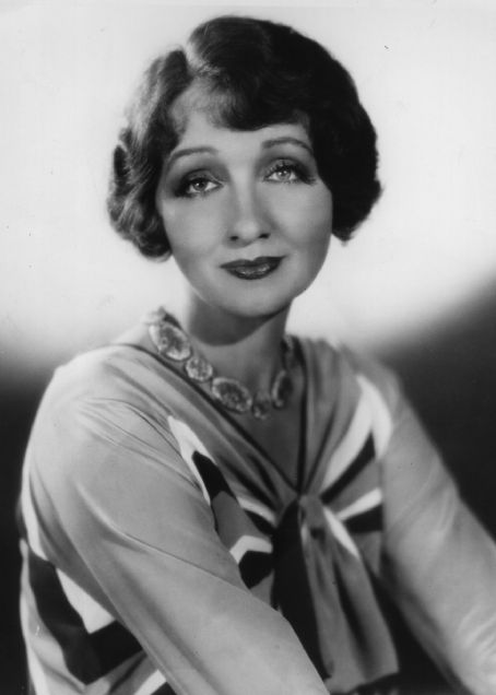 Publicity photo of Hedda Hopper from Stars of the Photoplay